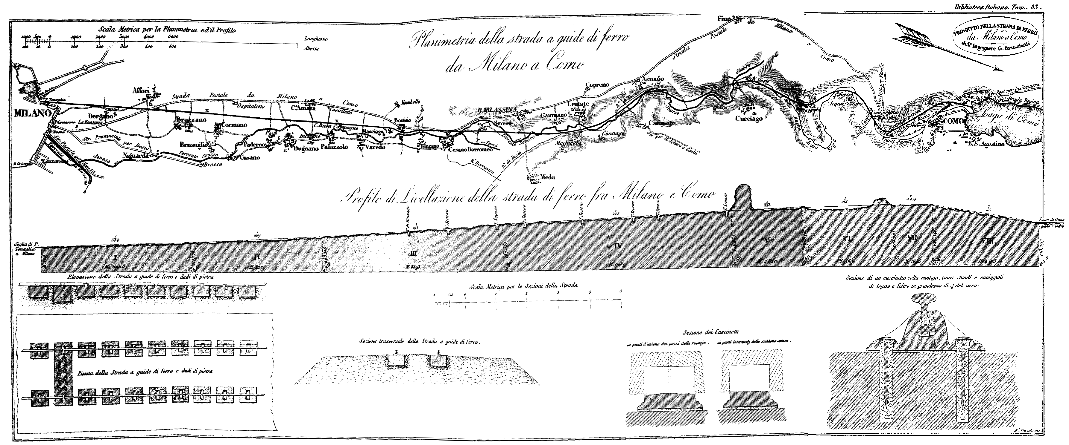 Engraving of the project for the Line "Milano Como" - 1836 Two tables had been united, slightly restored and cleaned by myself